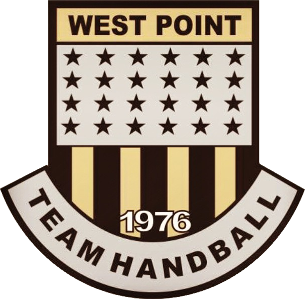 Former Logo of West Point Team Handball (until 2015)